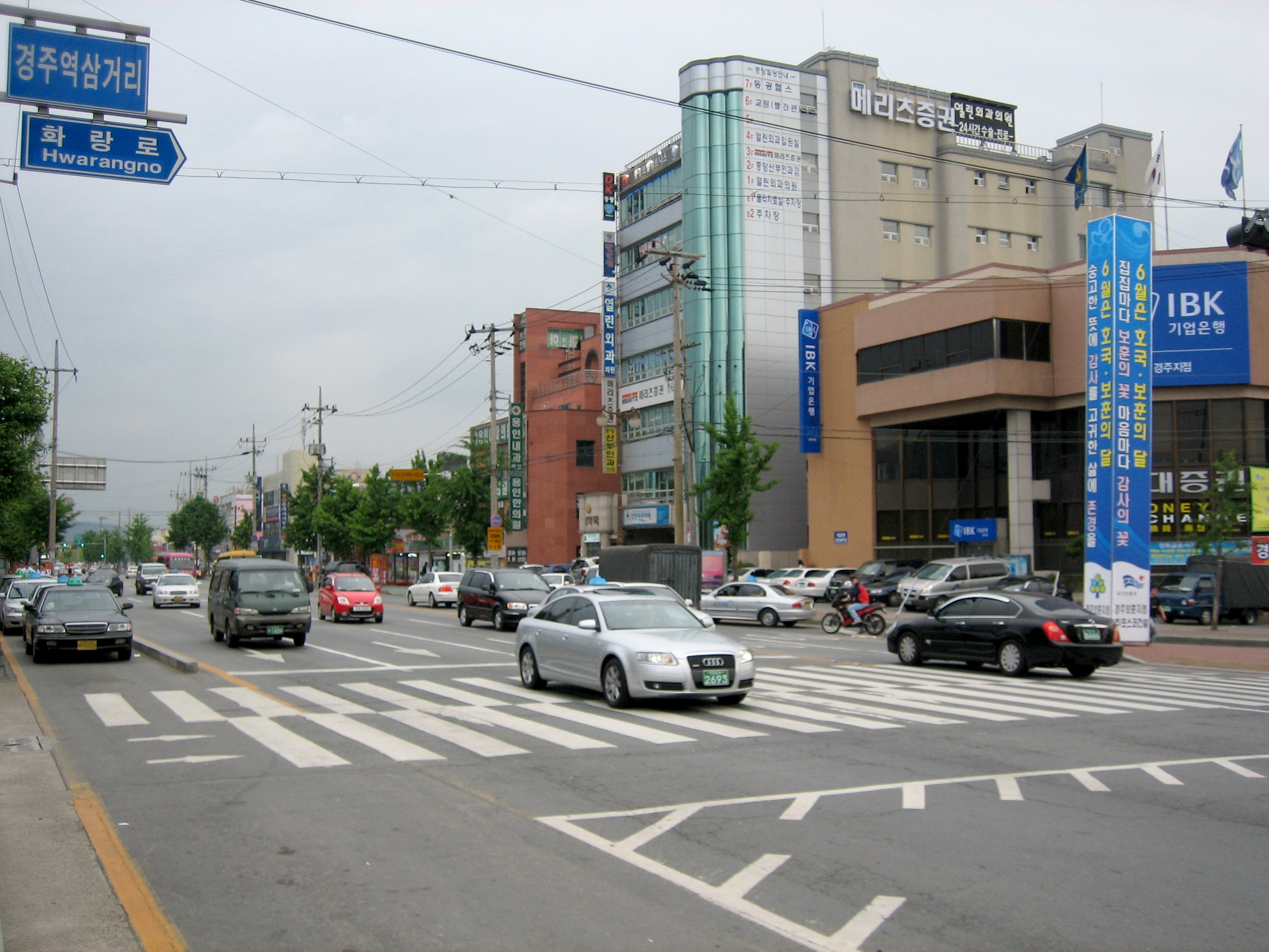 A view of Gyeongju, North Gyeongsang province, South Korea